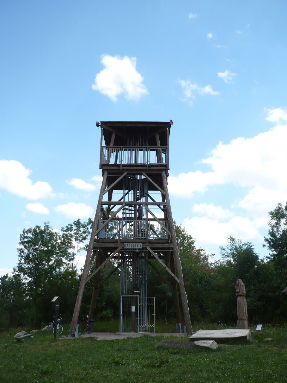 Barborka observation tower - view from east